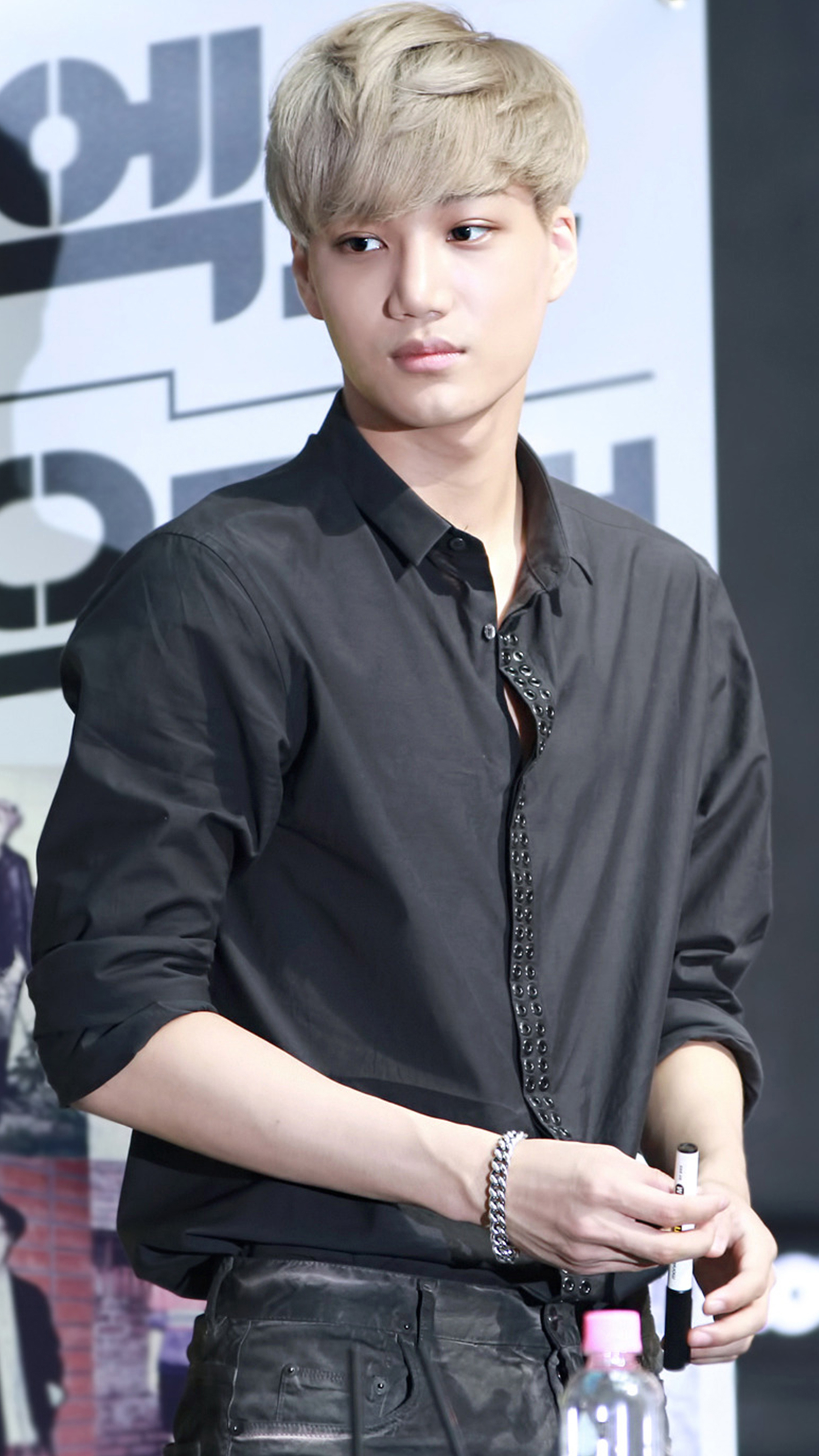 Kai at a fansigning event on August 17, 2013.